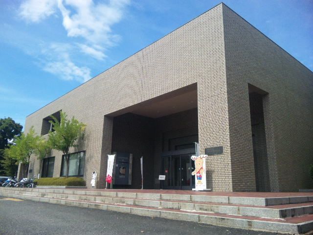 Kashihara archeology rabo museum